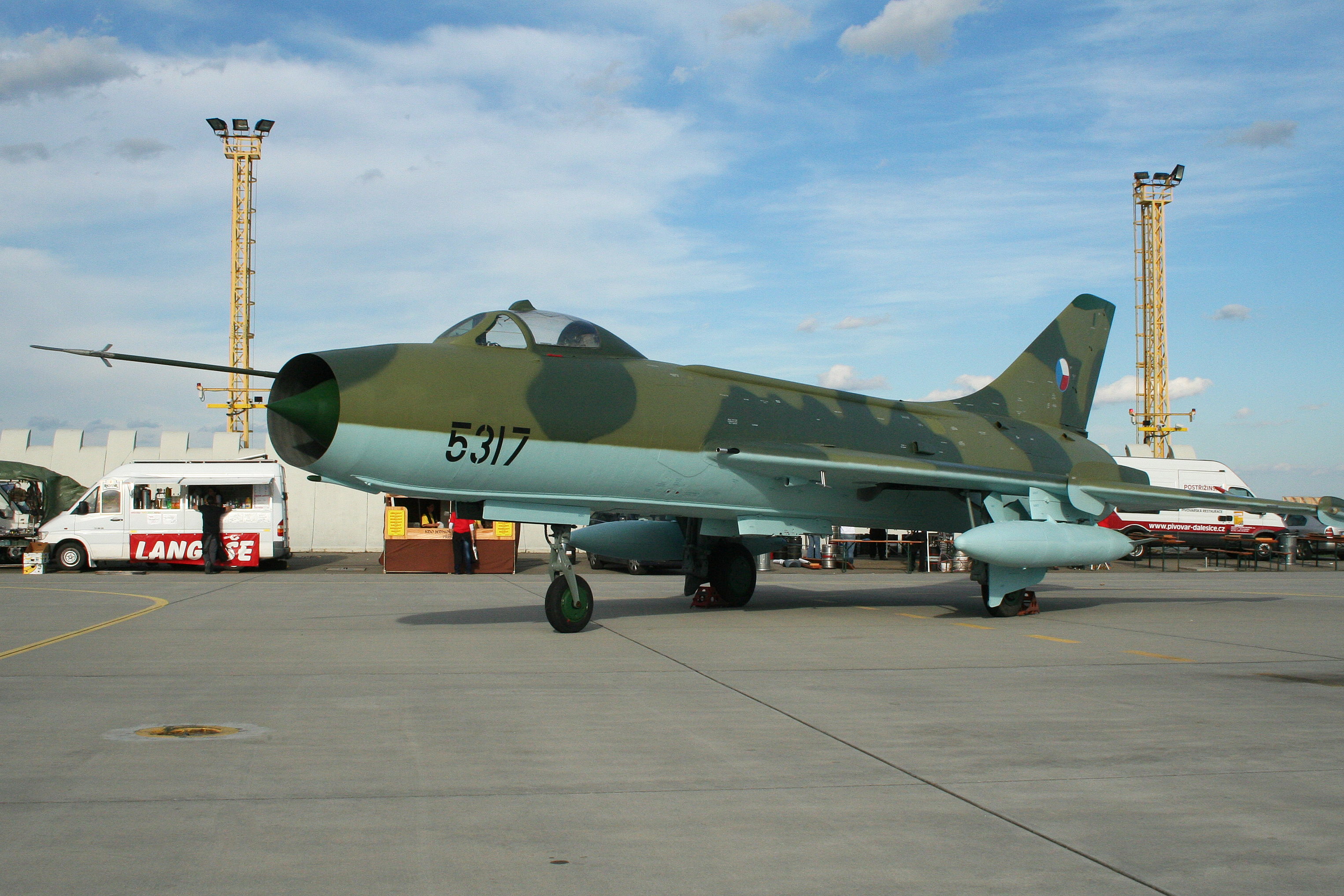 Preserved at the base and freshly repainted. Placed in the static display for the show. msn 5317. On static display at the Namest Open Day, Czech Republic. 06-10-2012